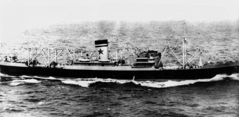 Blue Star Line refrigerated cargo liner MV Melbourne Star, built in 1936 and sunk in 1943